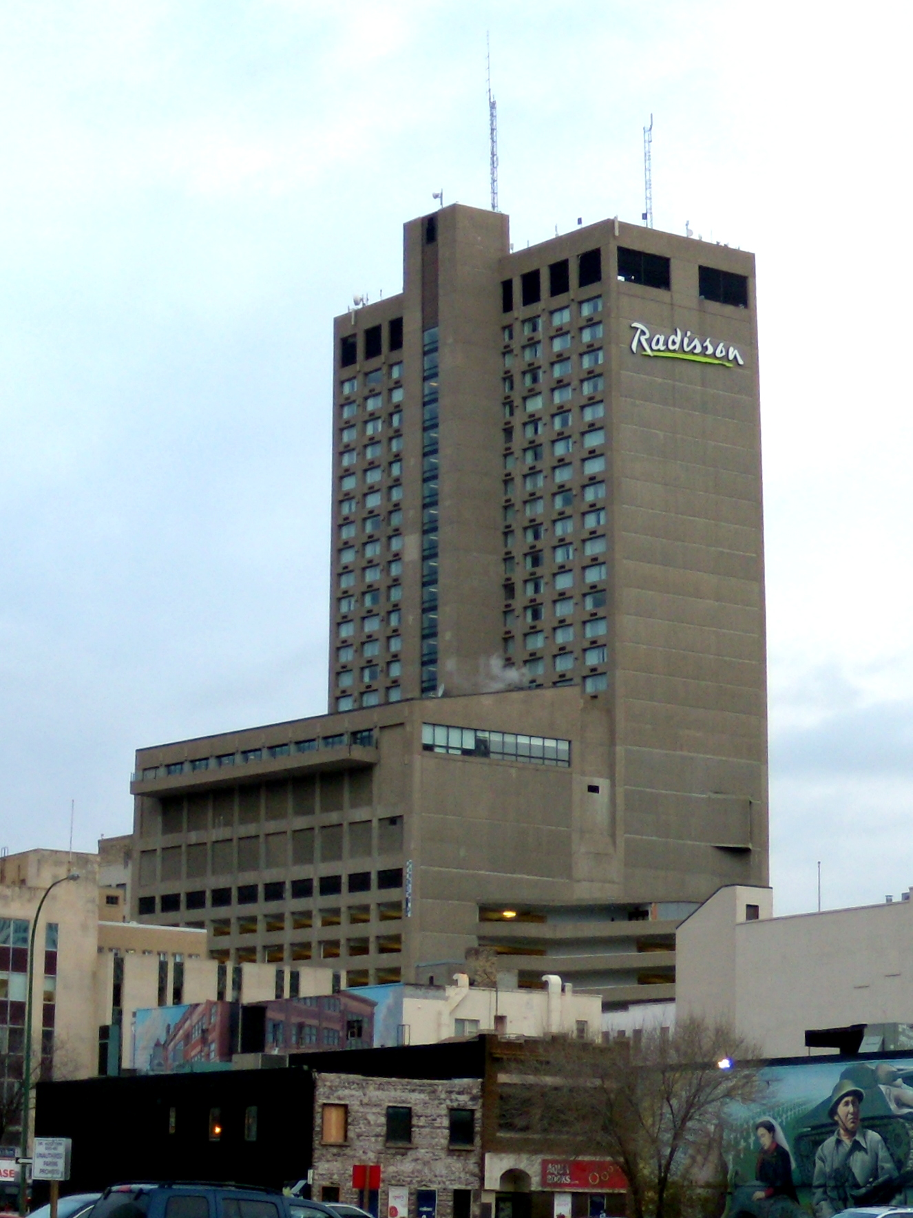 288 Portage Avenue - Radisson hotel in downtown Winnipeg, Manitoba